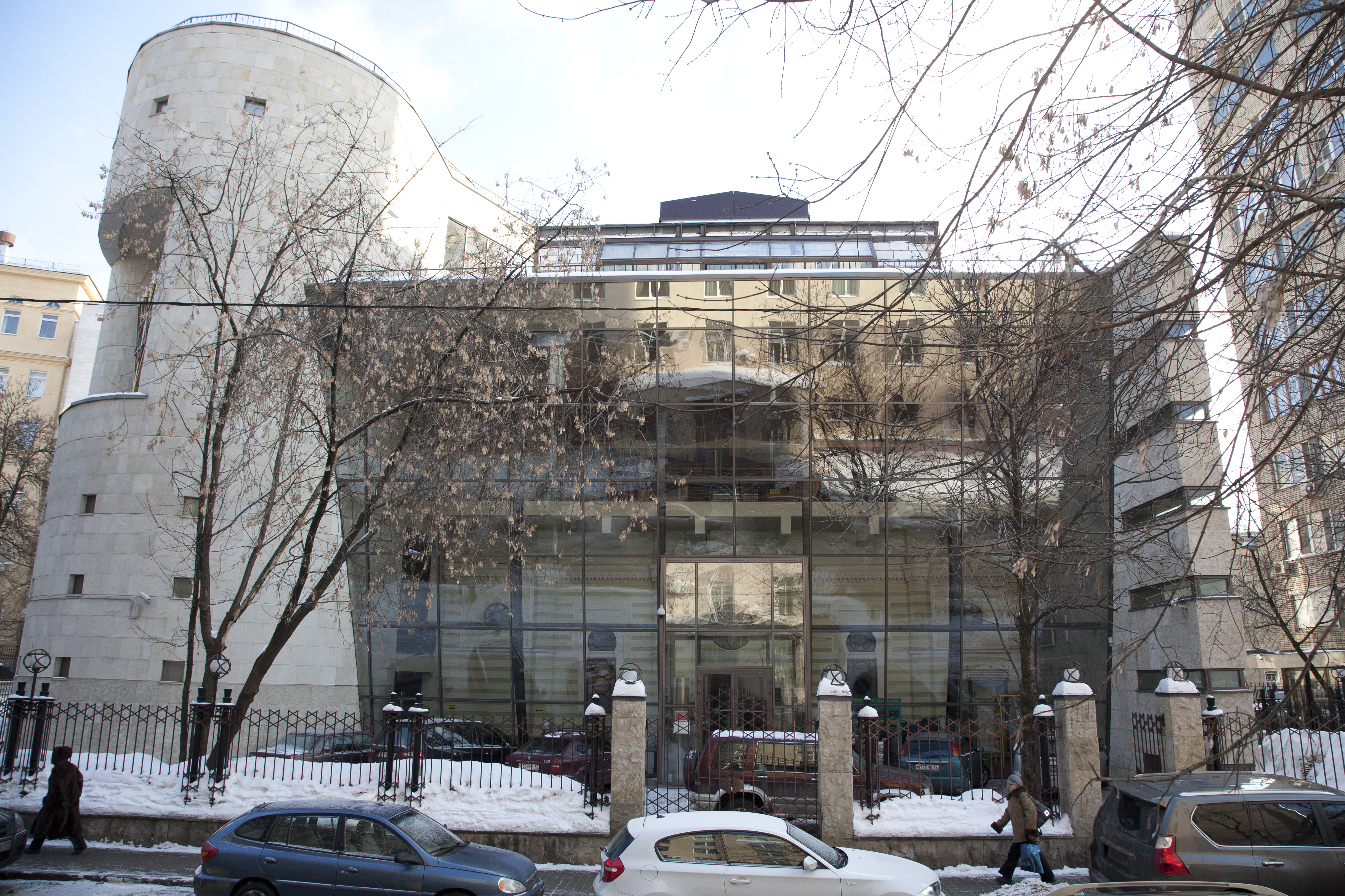 Synagogue on Bolshaya Bronnaya